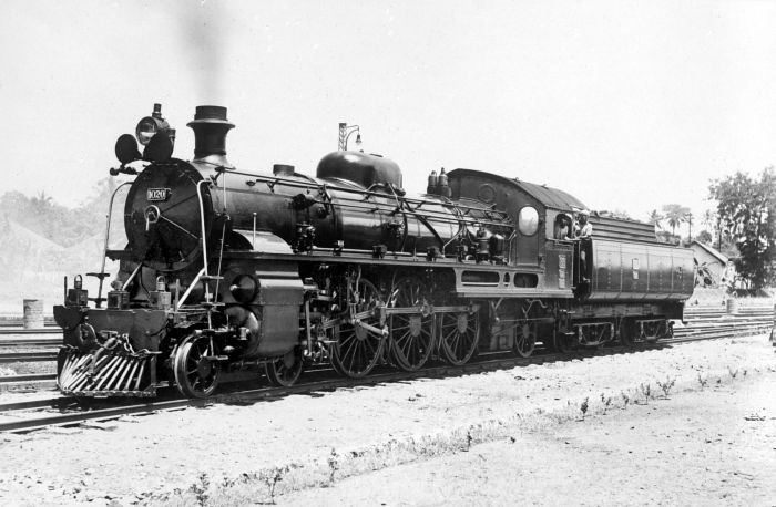 Locomotive of the State Railway Company on Java